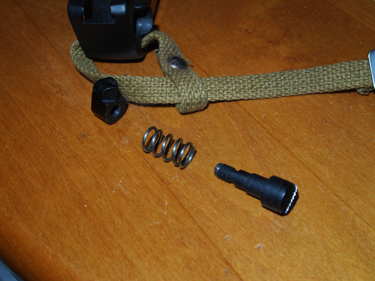 Russian AK 6kh4bayonet's ratch.